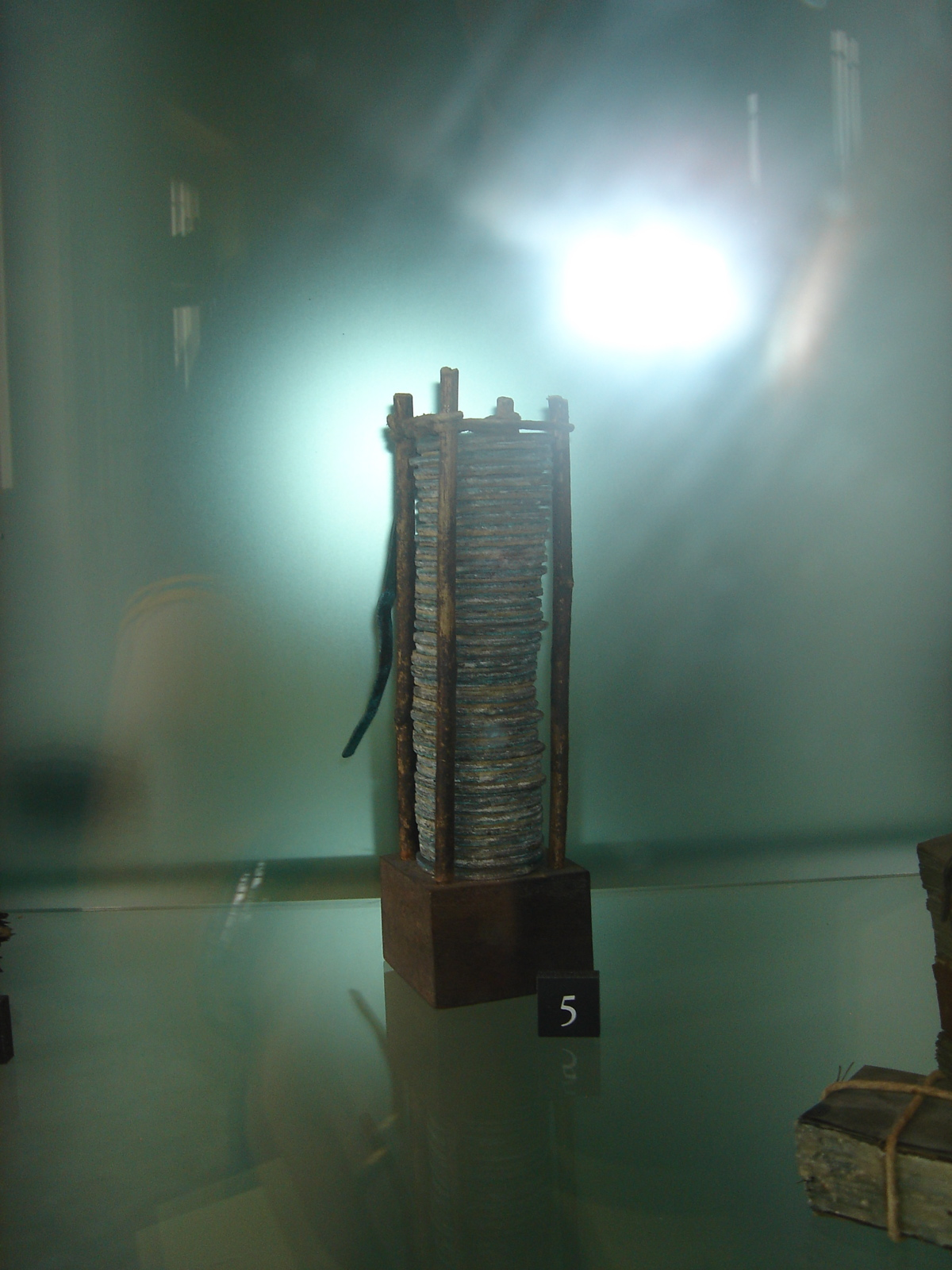 A Voltaic pile on display in the Tempio Voltiano.